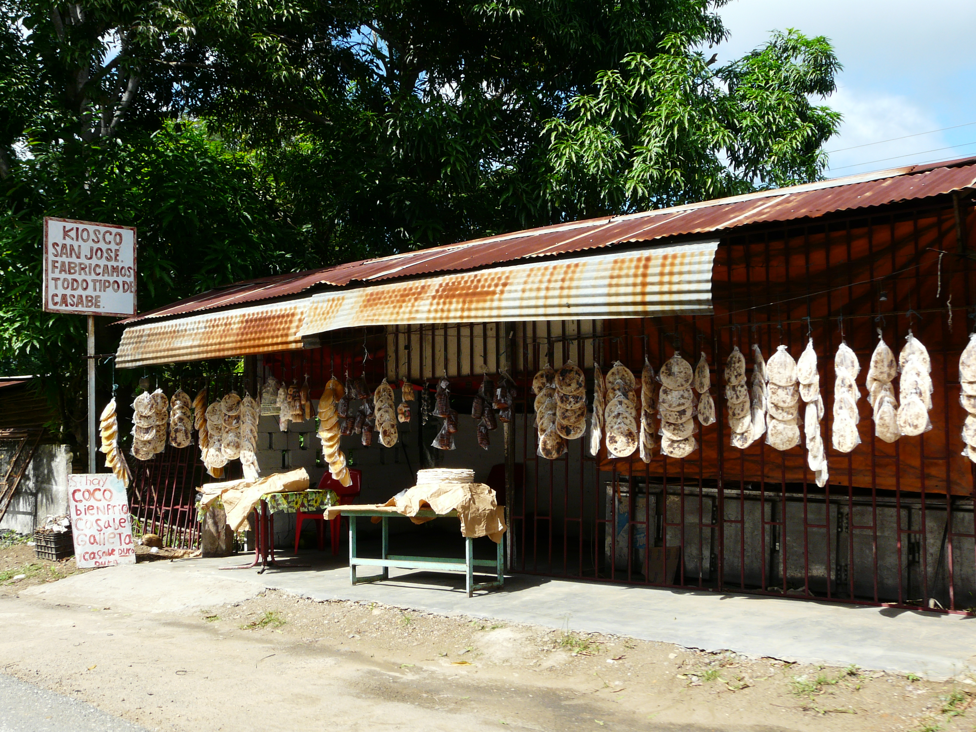 Venezuela, Barlovento